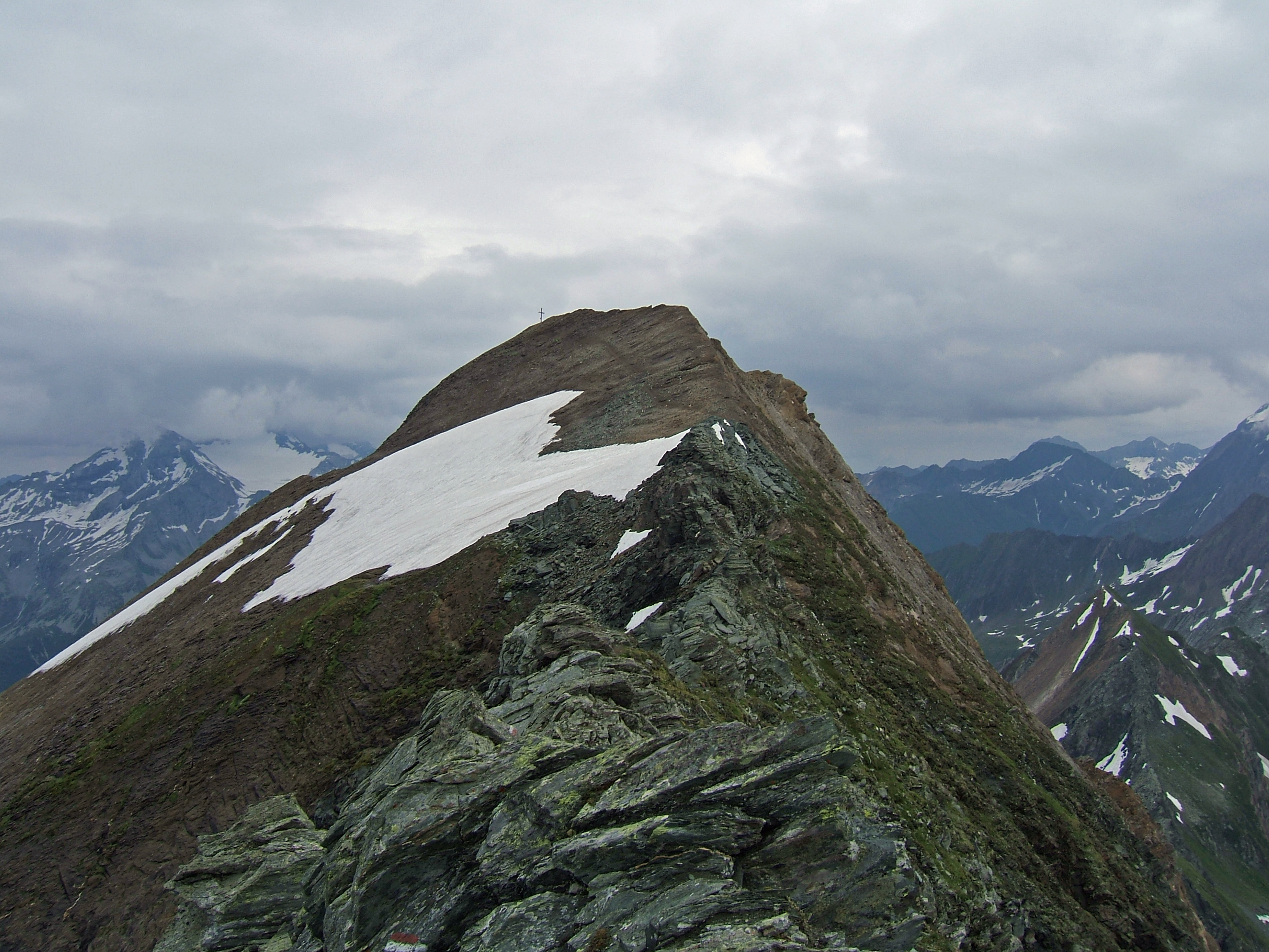 Grabspitze from west, from secondary peak